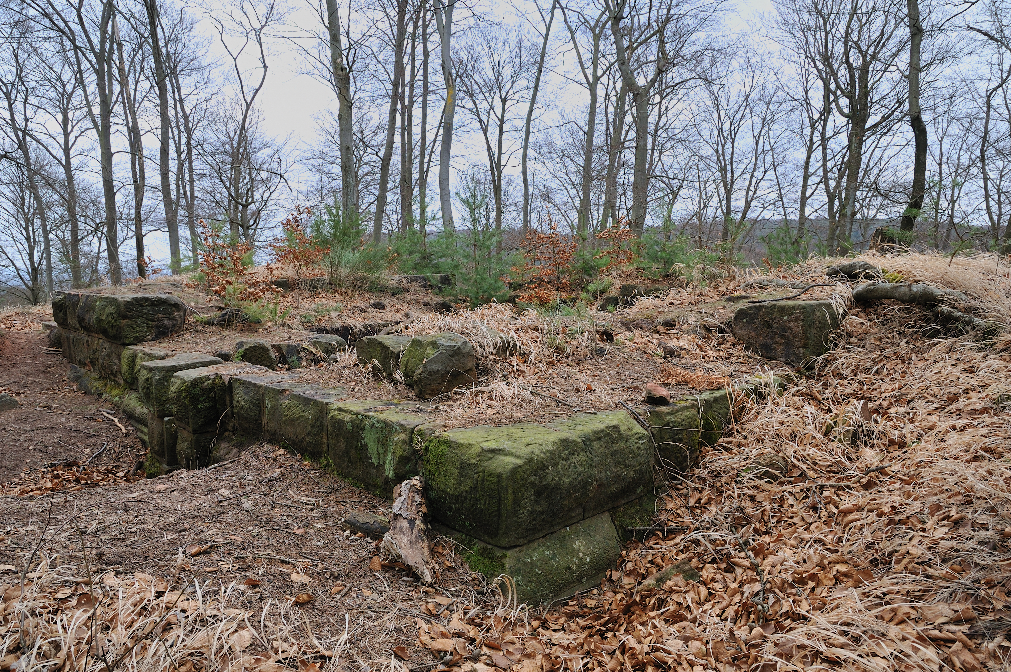 Remains of Castle Perleberg